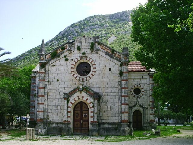 City of Ston at Pelješac peninsula, Croatia